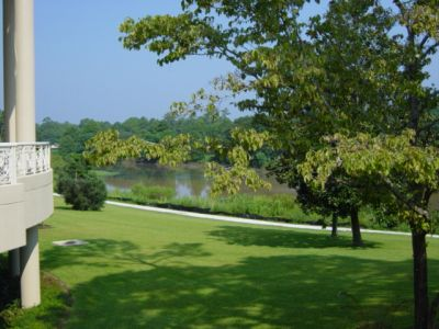 A view of the jogging trail located near the Mobile Museum of Art in Langan Park, Mobile, Alabama.